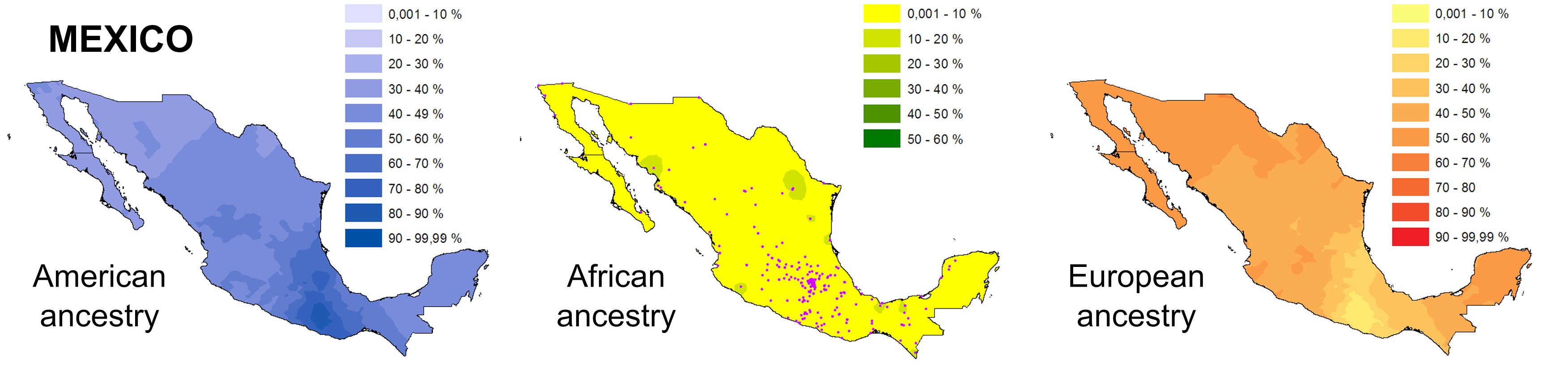 Geographic distribution of Native American (blue), African (green) and European (red) ancestry based on individual estimates for samples from Mexico. In the Mexican sample, Native American ancestry is highest in the centre/south of the country with the north showing the highest proportion of European Ancestry. African ancestry is generally low across Mexico except for a few coastal regions. To facilitate comparison, color intensity transitions occur at 10% ancestry intervals for all maps. The birthplace of individuals are indicated by purple dots on the African ancestry map. Cropped from File:Geographic ancestry distribution of Brazil, Chile, Colombia, Mexico and Peru.png.